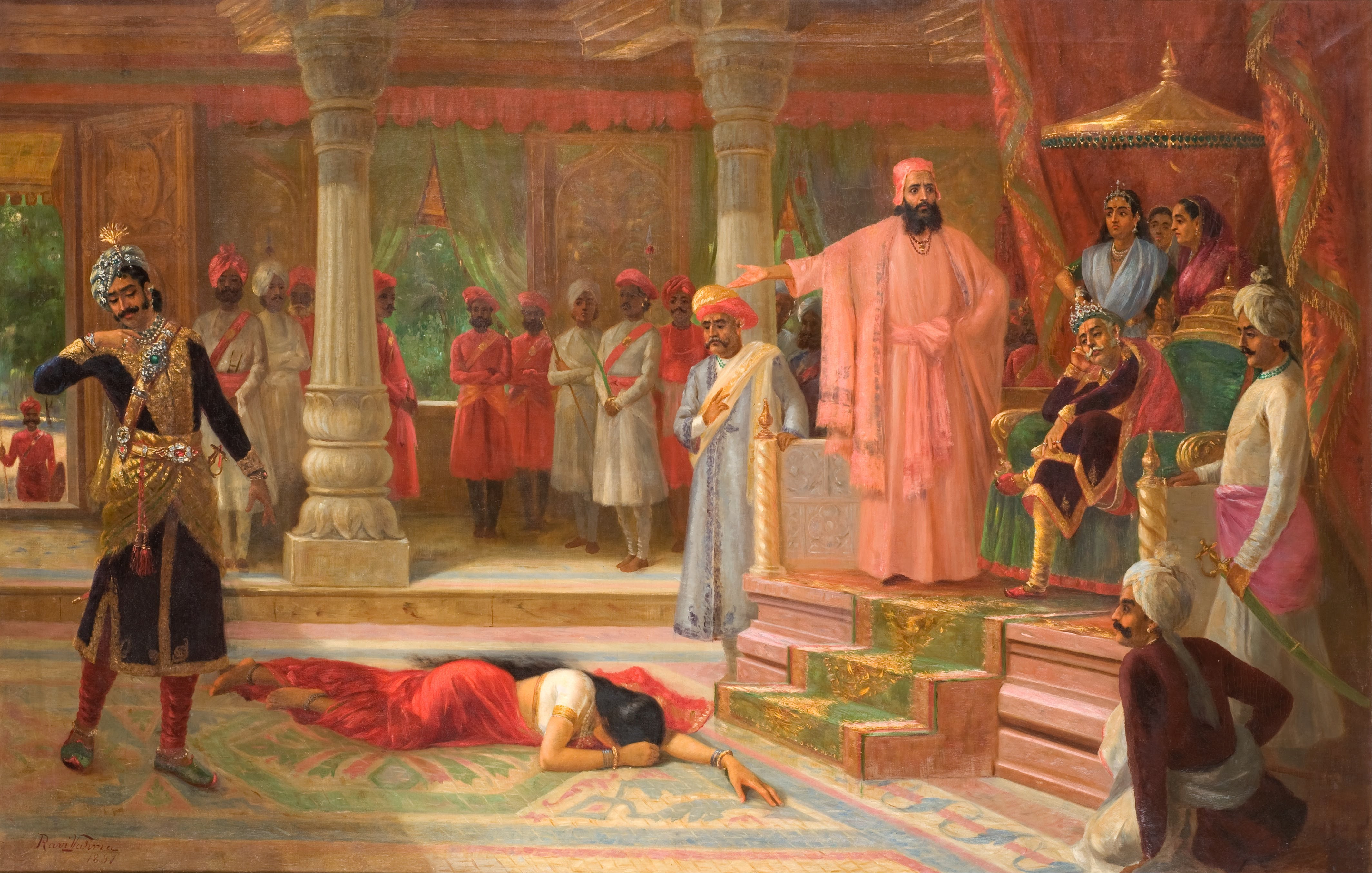 Draupadi as humiliated in Virata's durbar by Kichaka (left).